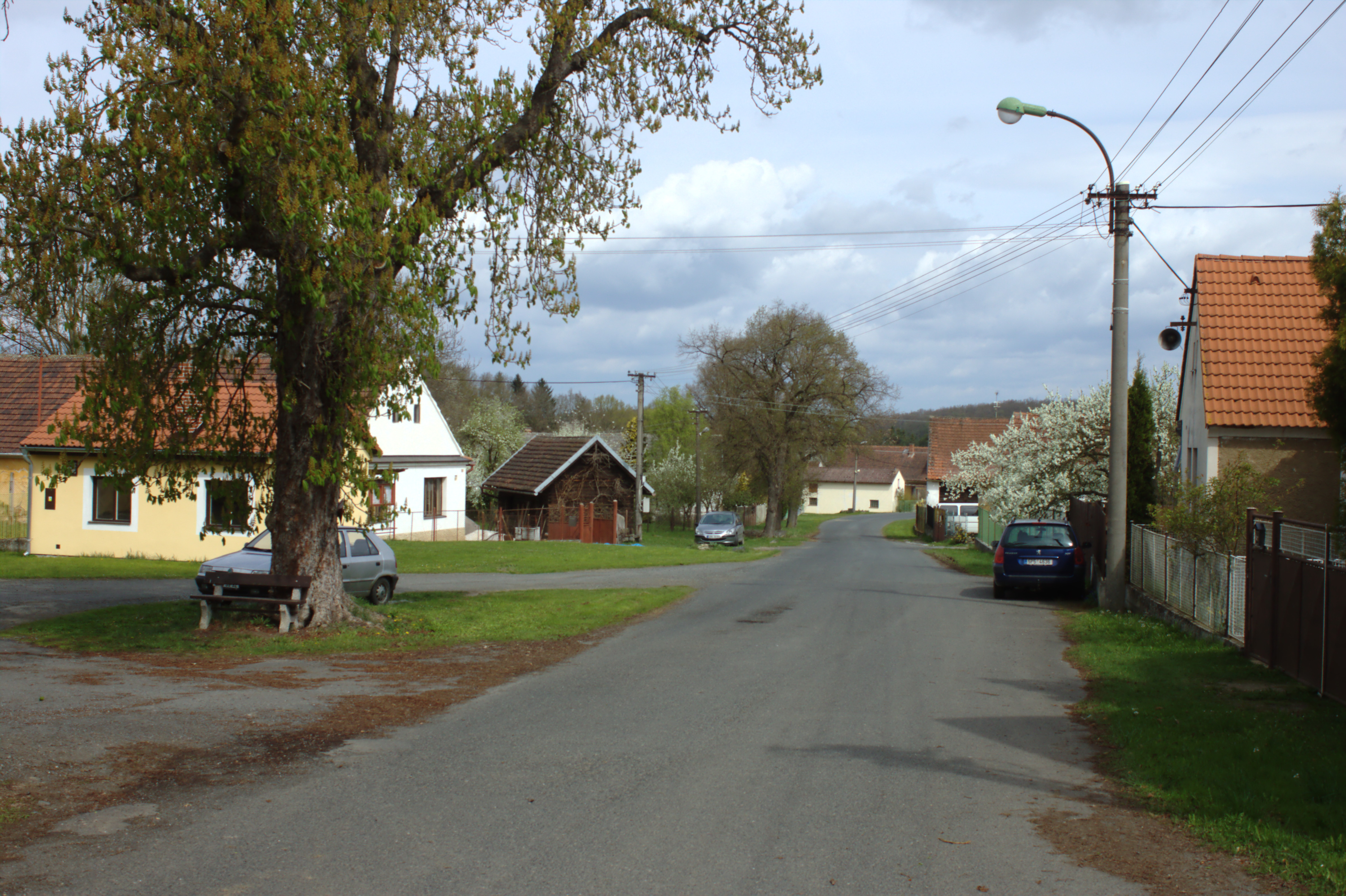 A common in the village of Zelené, Plzeň Region, CZ